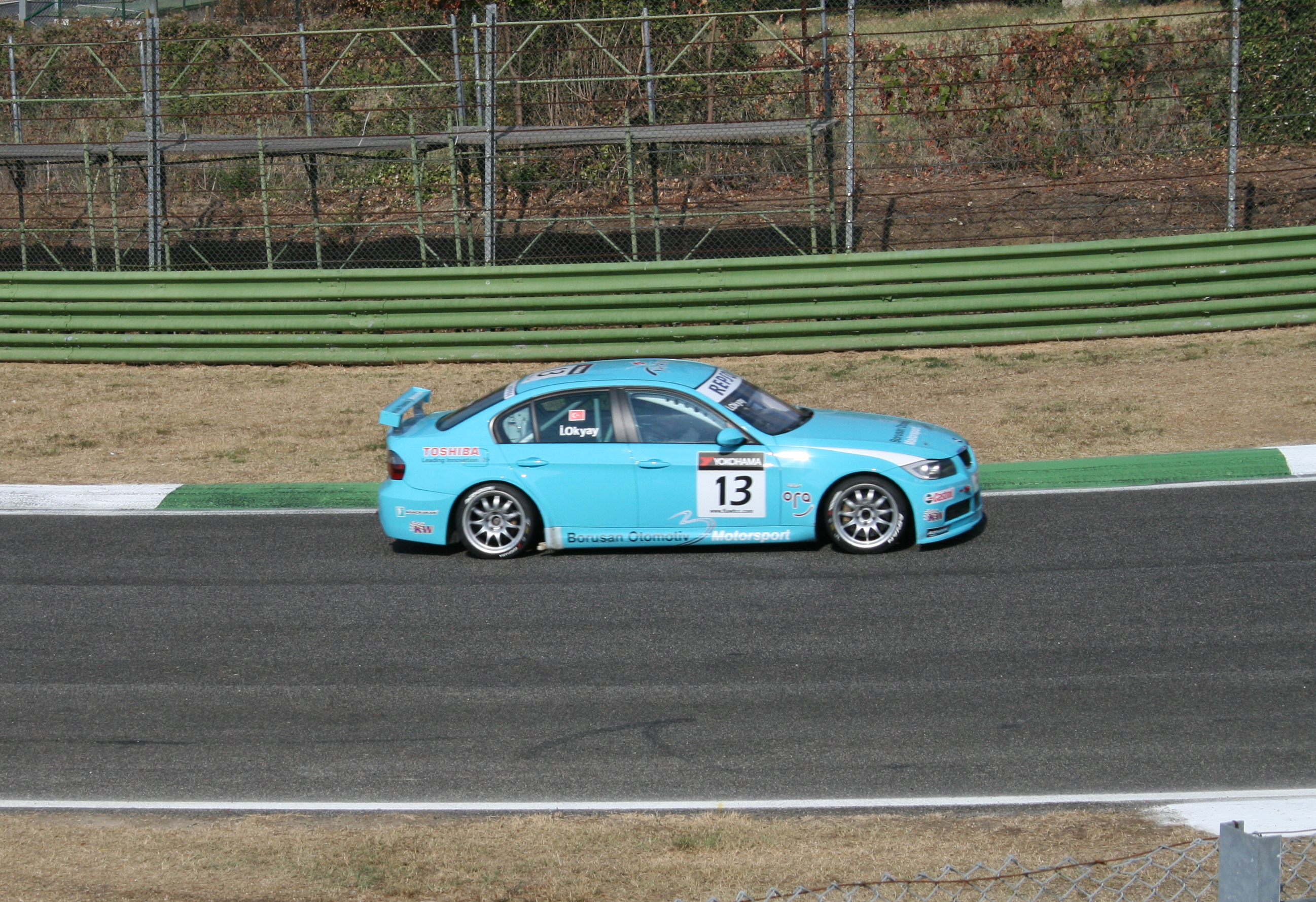 İbrahim Okyay in his BMW 320si at Autodromo Enzo e Dino Ferrari in the 2008 FIA WTCC Race of Europe.